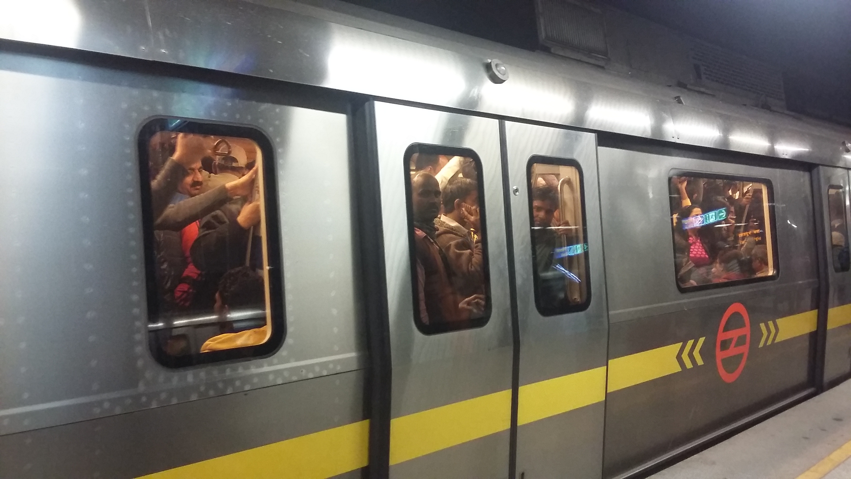 A view from an underground Metro Station-Rajesh Rajesh